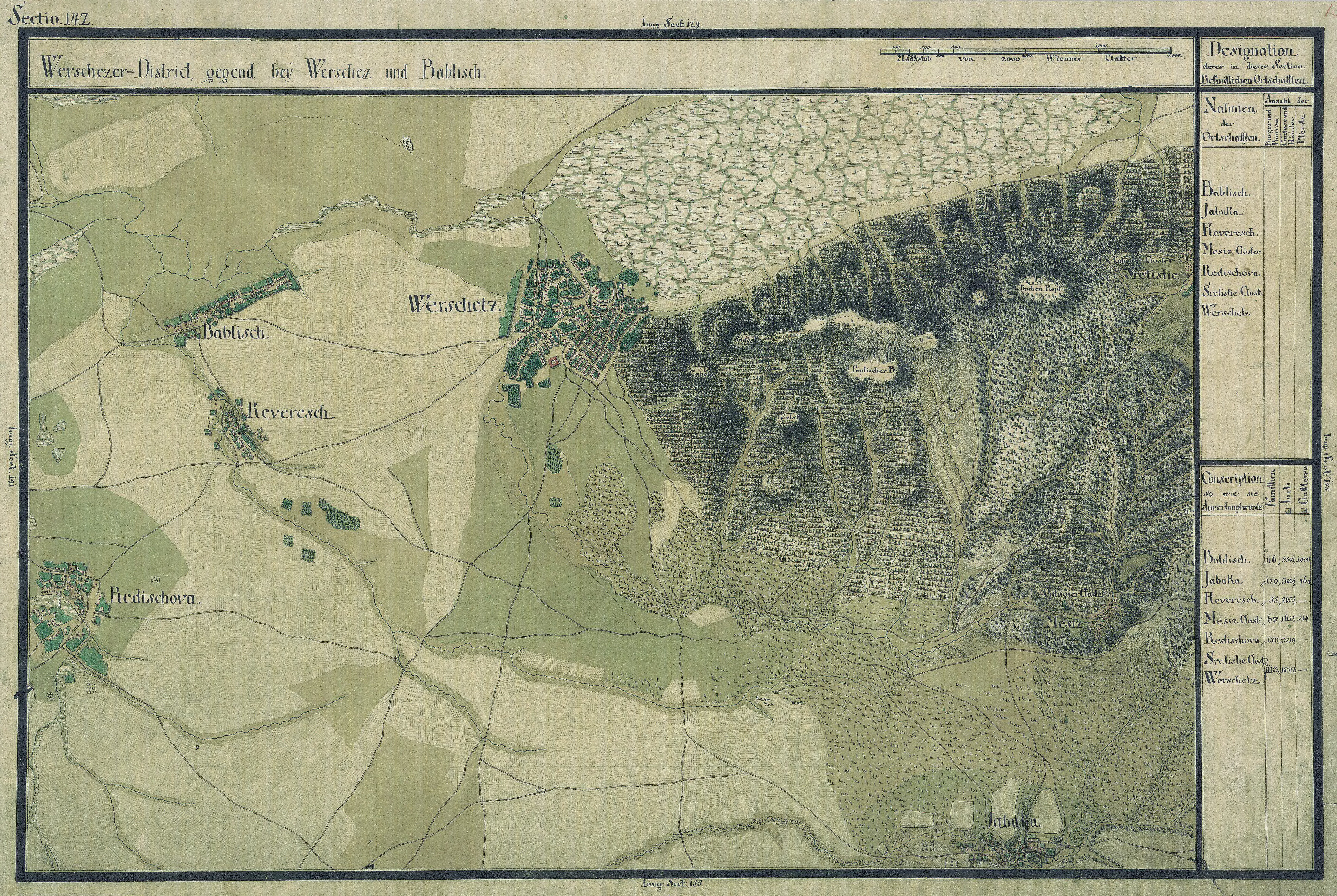 The Banat region in the cadastral maps: Josephinische Landesaufnahme, 1769-72. Josephinische Landaufnahme pg142